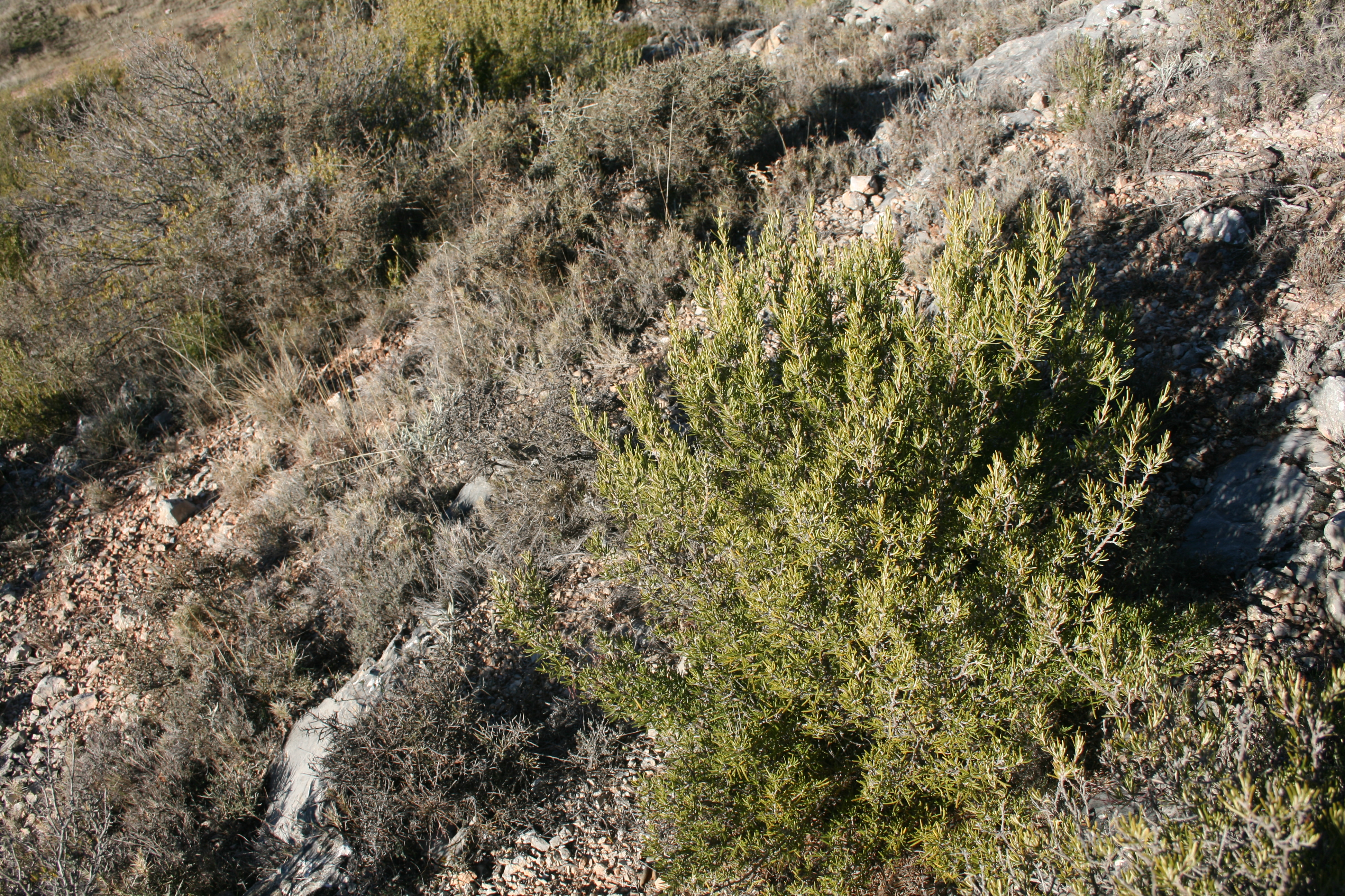 Thymus, Bijuesca, Spain